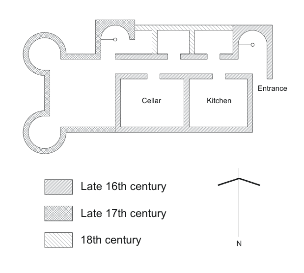 Floor plan of Bedlay Castle, Scotland.